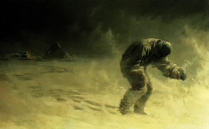 A Very Gallant Gentleman - John Charles Dollman - 1913.jpg